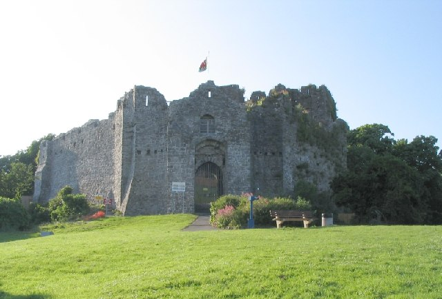 Oystermouth Castle near Mumbles, Swansea Bay